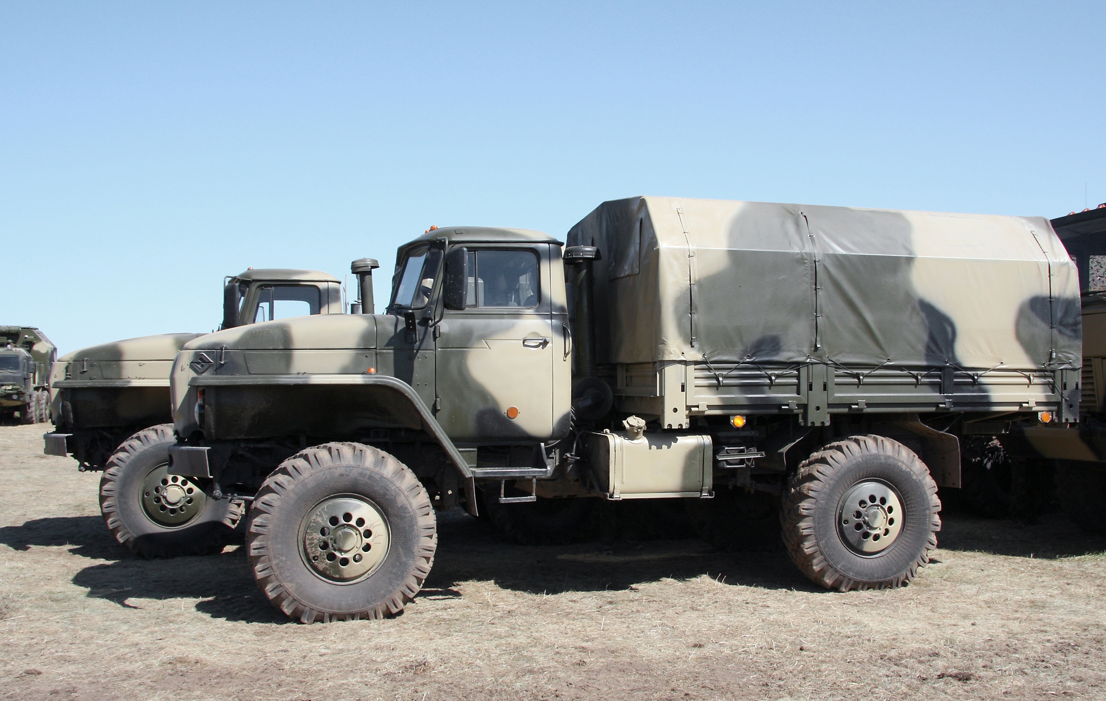 Ural-43206 transport truck.